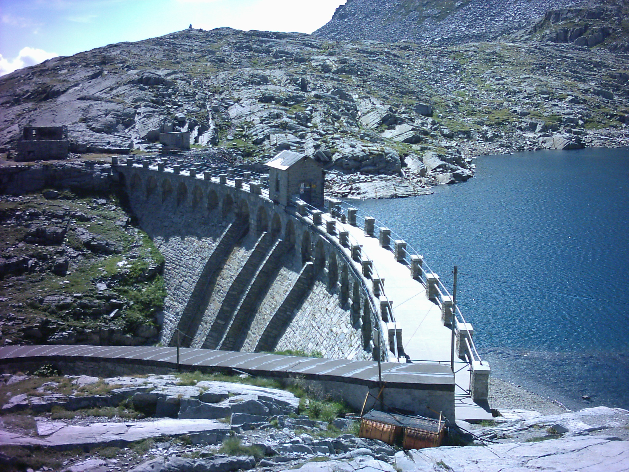 Lago della Vacca (Cow's Lake) at 2358 mt. above sea level, in the southern part of Adamello mountains, Lombardy. View of the hydroelectric dam.